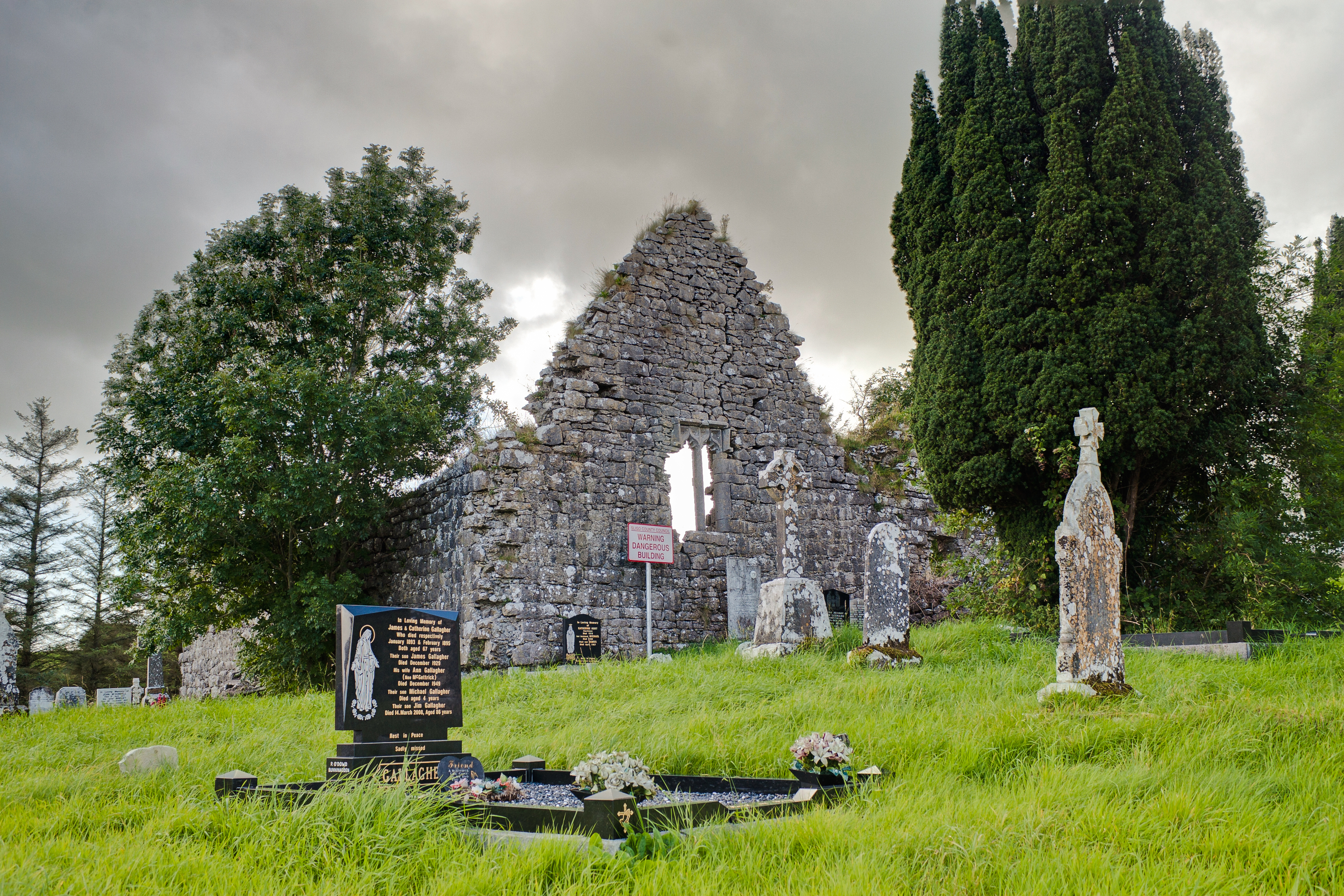 South-east view of the friary.